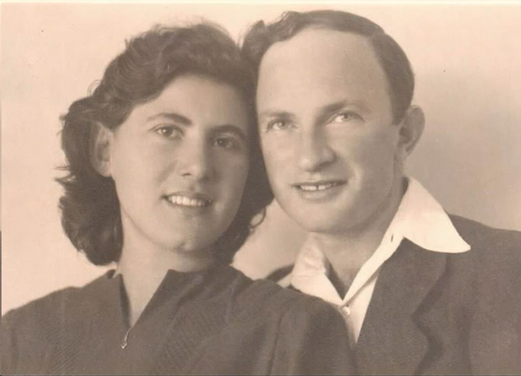 A photo of Zehava and Shevach Eden in Tel Aviv, 1945.